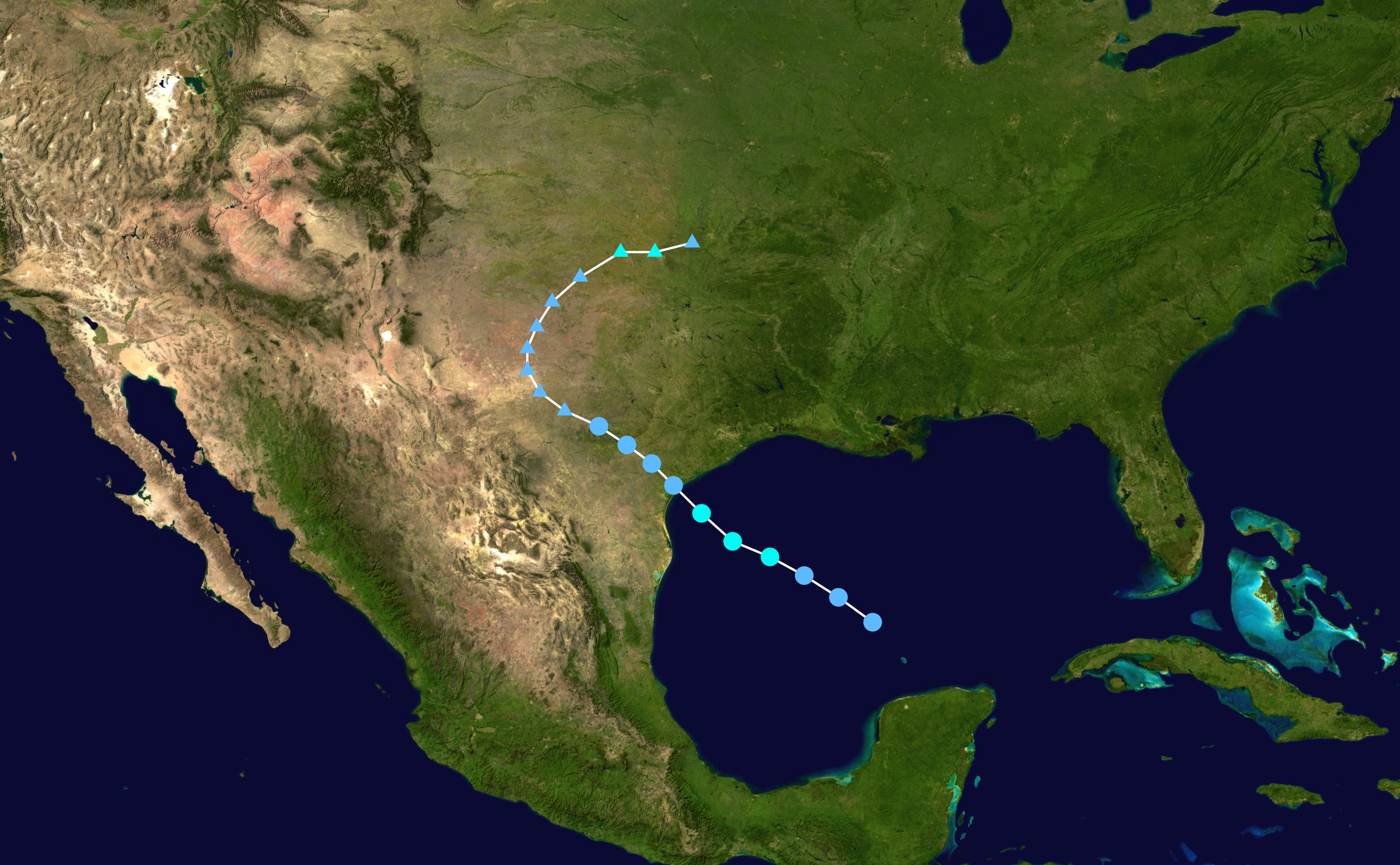 Track map of Tropical Storm Erin of the 2007 Atlantic hurricane season. The points show the location of the storm at 6-hour intervals. The colour represents the storm's maximum sustained wind speeds as classified in the Saffir–Simpson scale (see below), and the shape of the data points represent the nature of the storm, according to the legend below. Saffir–Simpson scale Tropical depression≤38 mph≤62 km/h Category 3111–129 mph178–208 km/h Tropical storm39–73 mph63–118 km/h Category 4130–156 mph209–251 km/h Category 174–95 mph119–153 km/h Category 5≥157 mph≥252 km/h Category 296–110 mph154–177 km/h Unknown Storm type Tropical cyclone Subtropical cyclone Extratropical cyclone / Remnant low / Tropical disturbance / Monsoon depression